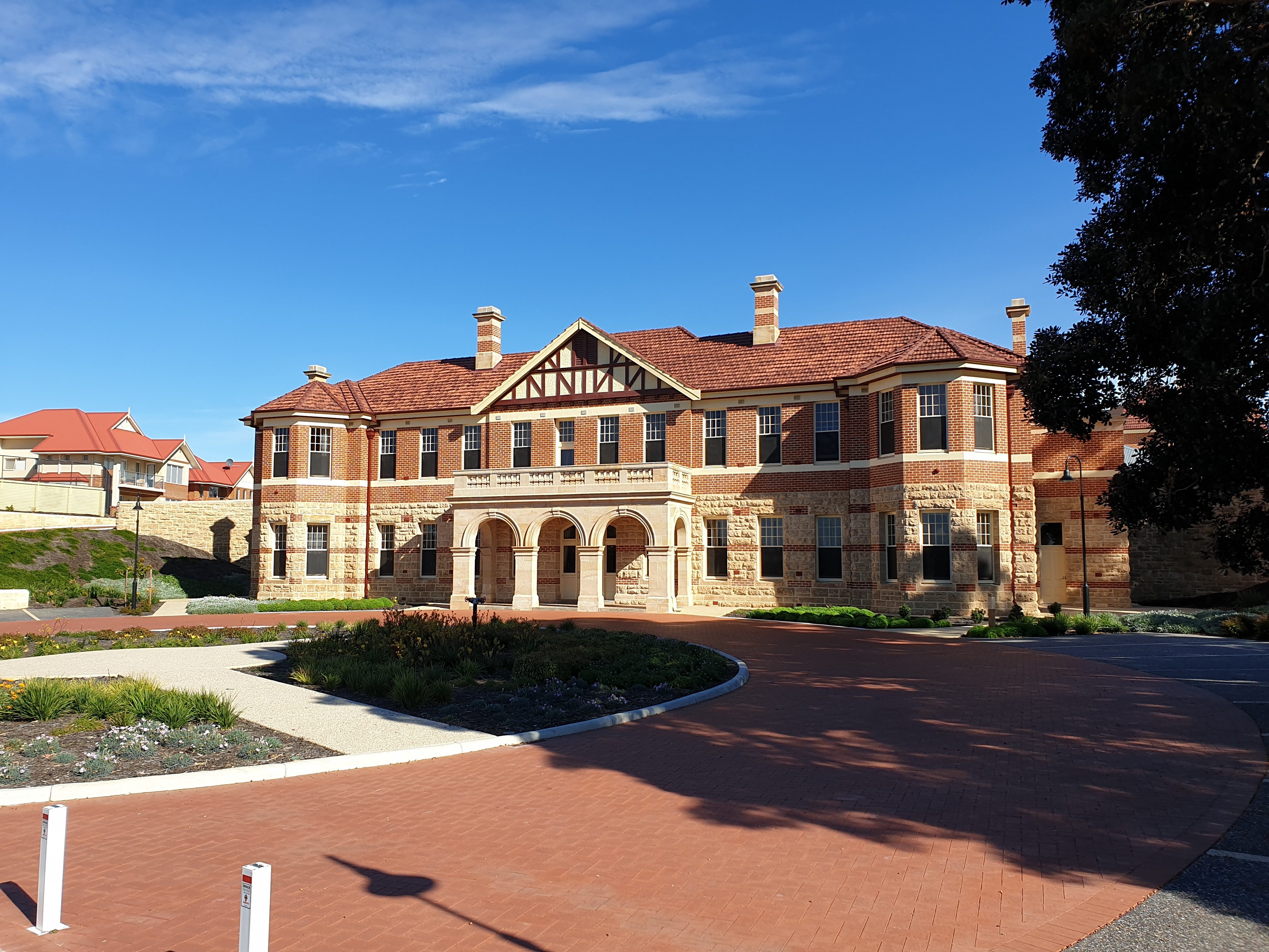 Montgomery House main entrance. Mount Claremont Perth, Western Australia.